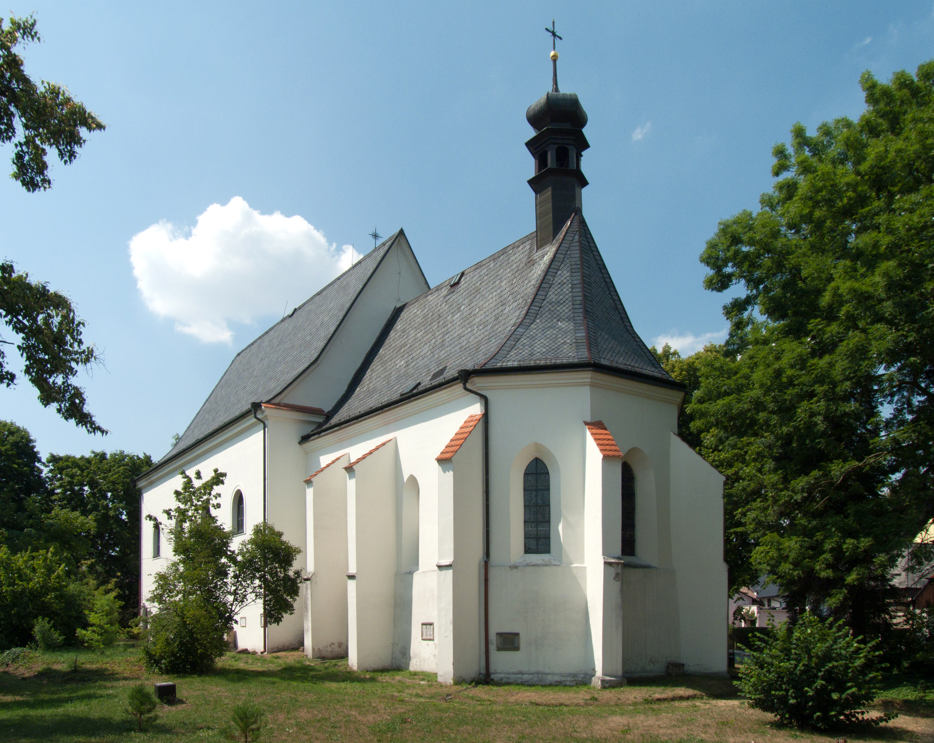 Feast of the Cross Church in the town of Bělá pod Bezdězem, Česká Lípa District, Czech Republic